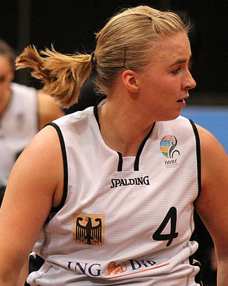 Germany vs Japan women's wheelchair basketball team at the Sports Centre. Germany's Mareike Adermann